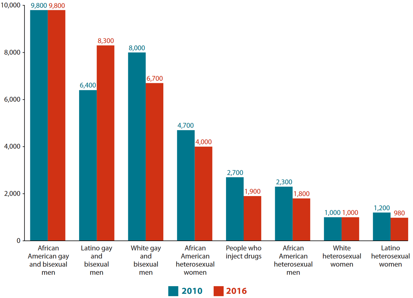 This is a graph by the centers for disease control, published in February of 2019, that shows HIV infection vectors by race given the CDC infection statistics collected from 2010-2016.